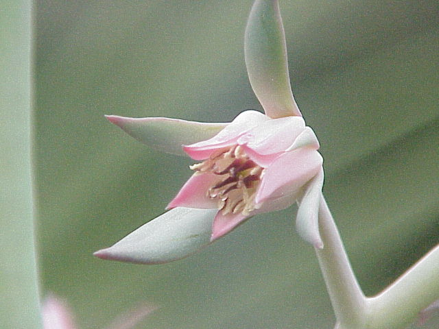 Species: Echeveria sp. Family: Crassulaceae Image No. 2